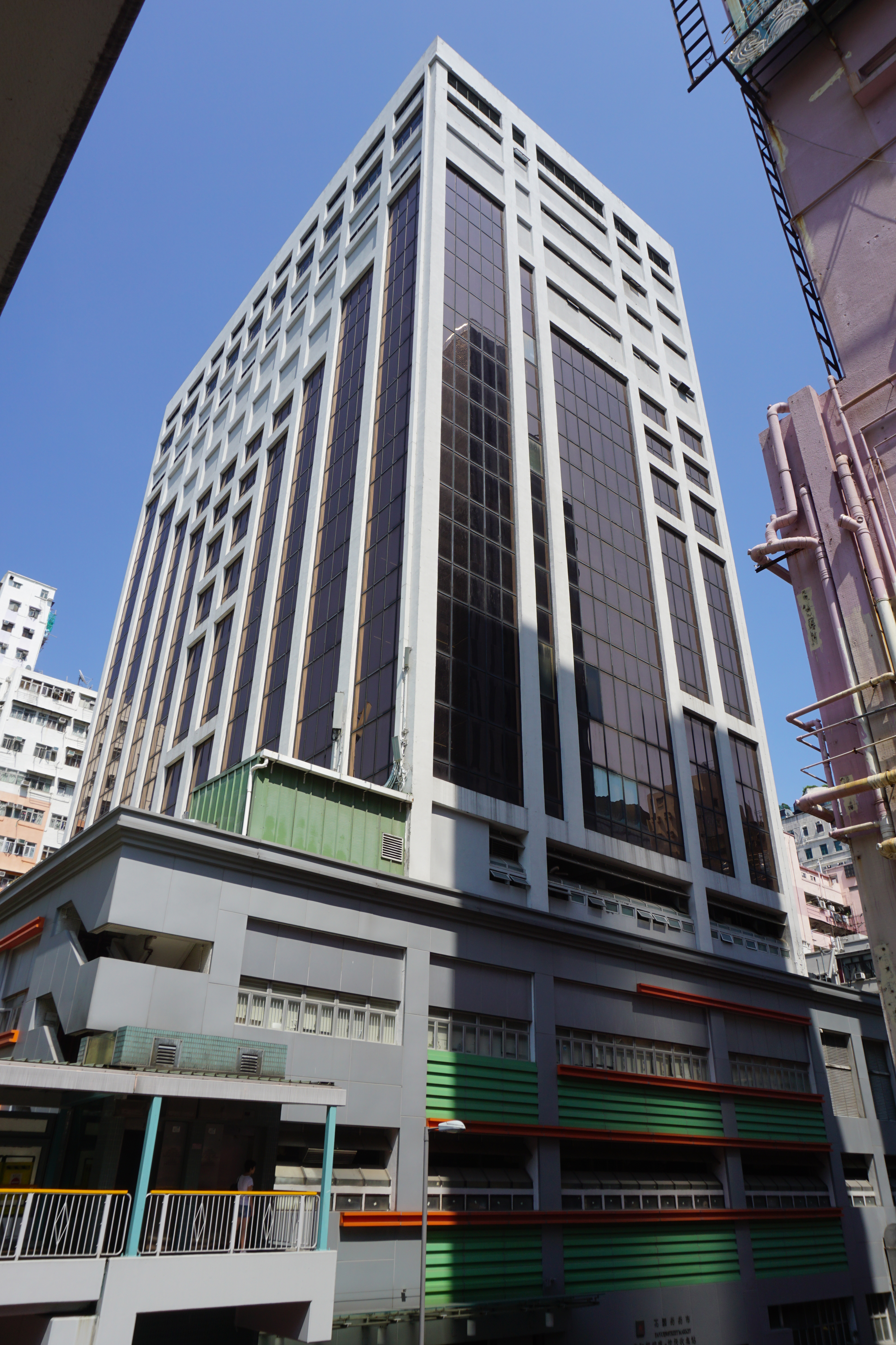 Fa Yuen Street Municipal Services Building in Mong Kok, Hong Kong.